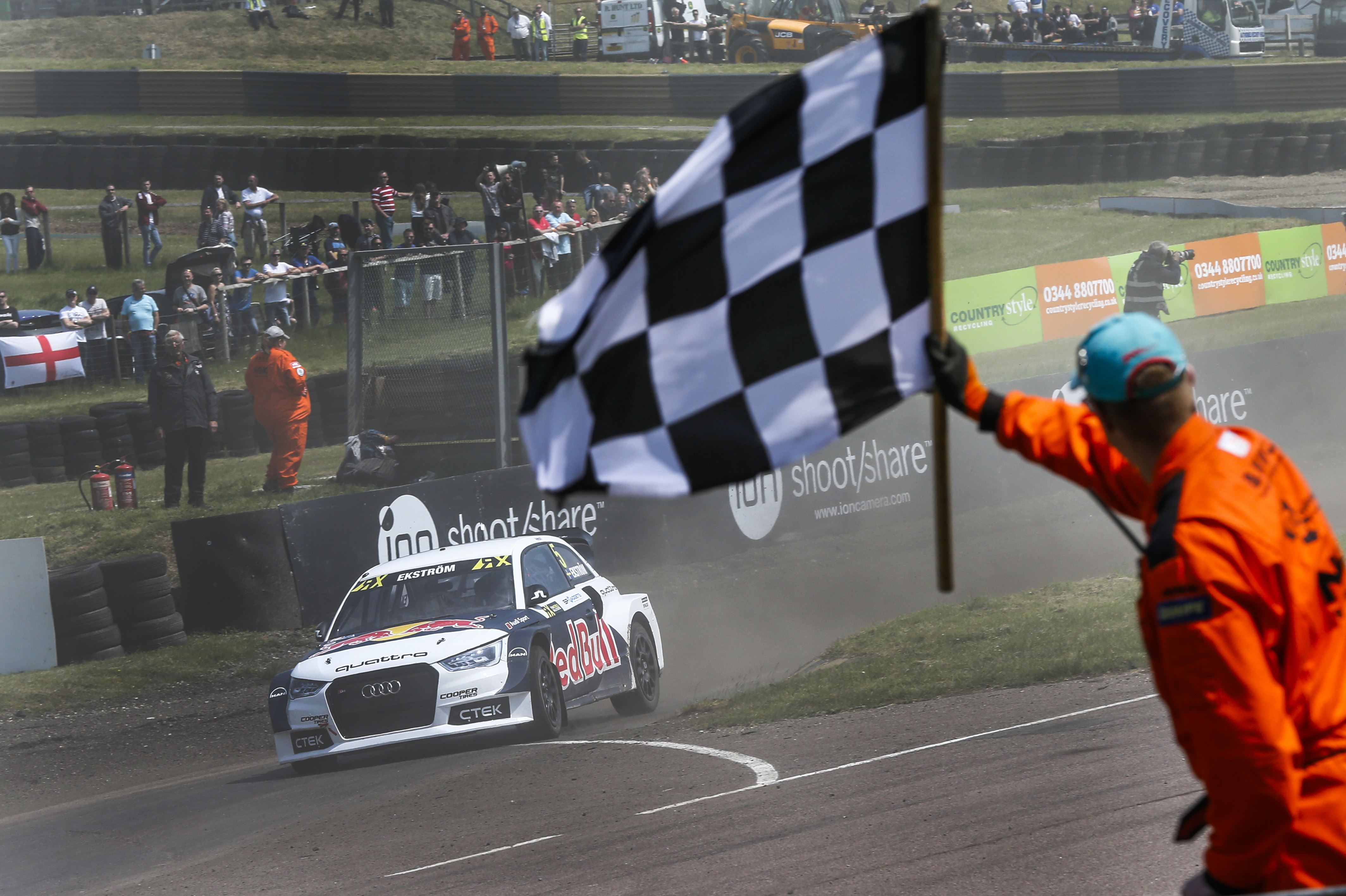 2016 FIA World Rallycross Championship / Round 04, Lydden Hill, GB / May 27 - 29 2016 // Worldwide Copyright: Tony Welam/EKS/McKlein